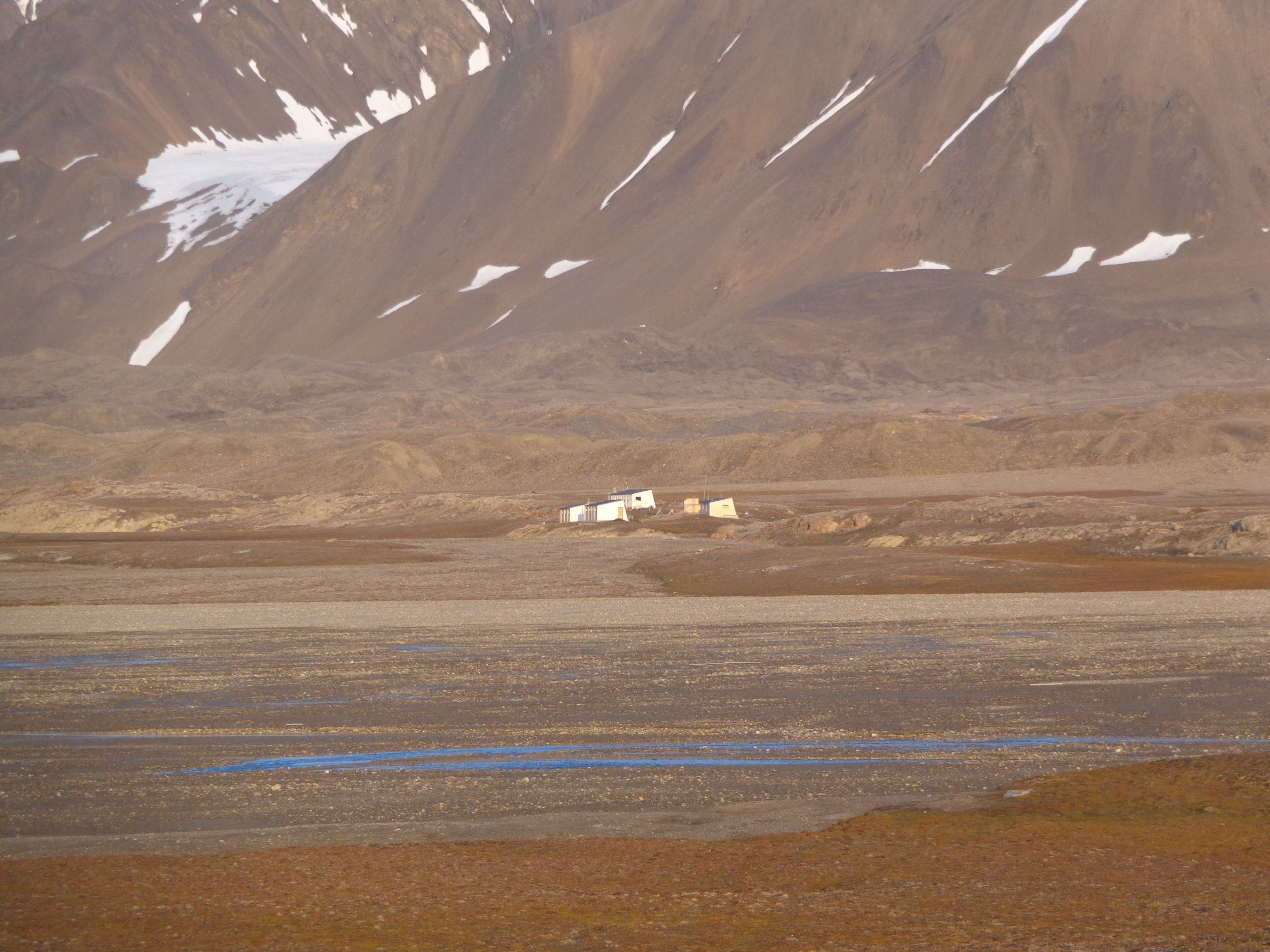 French scientific station Corbel, near Ny-Ålesund